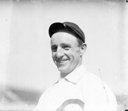 Jimmy Slagle baseball card